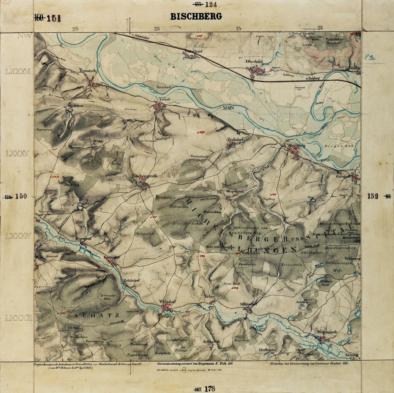 Walsdorf